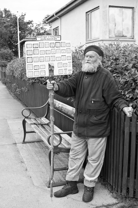 Helgi Hóseason is Iceland's hardiest protester. In his old age he still stands on his corner protesting various matters. In this case it was smoking. I was on my way to a camera shop (to pick up a Nikkor 75-150E f/3.5!) across the street so I stopped to say a few words of encouragement. I asked him permission to take a photo and only snapped this one. Wish it would have turned out better. I admire his tenacity and agree with many of his opinions so he deserves a better photo. Also, he is quite photogenic but I wasn't able to let that shine through.